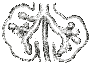 Lungs of a human embryo more advanced in development. (His.)